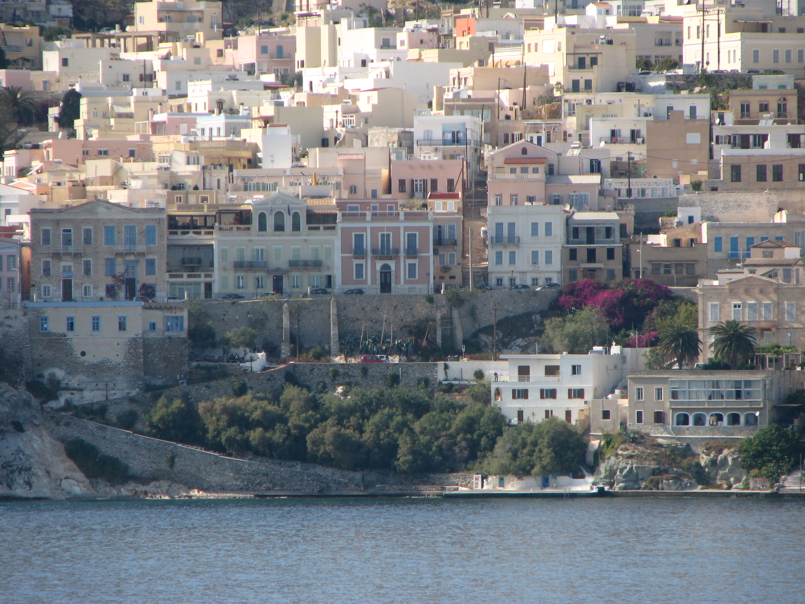 Hermoupolis from boat.